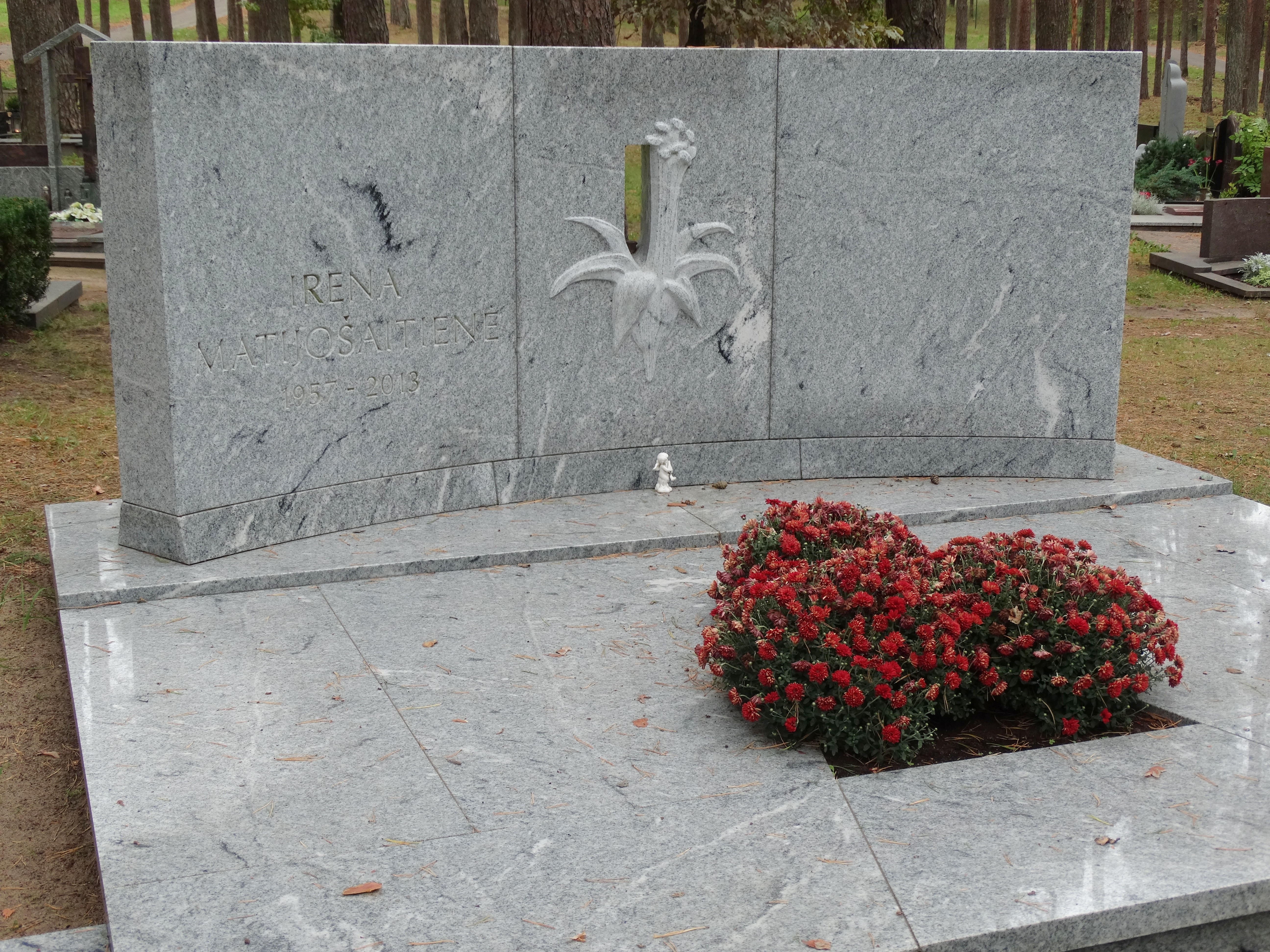 Tomb of Irena Matijošaitienė, Petrašiūnai, Lithuania